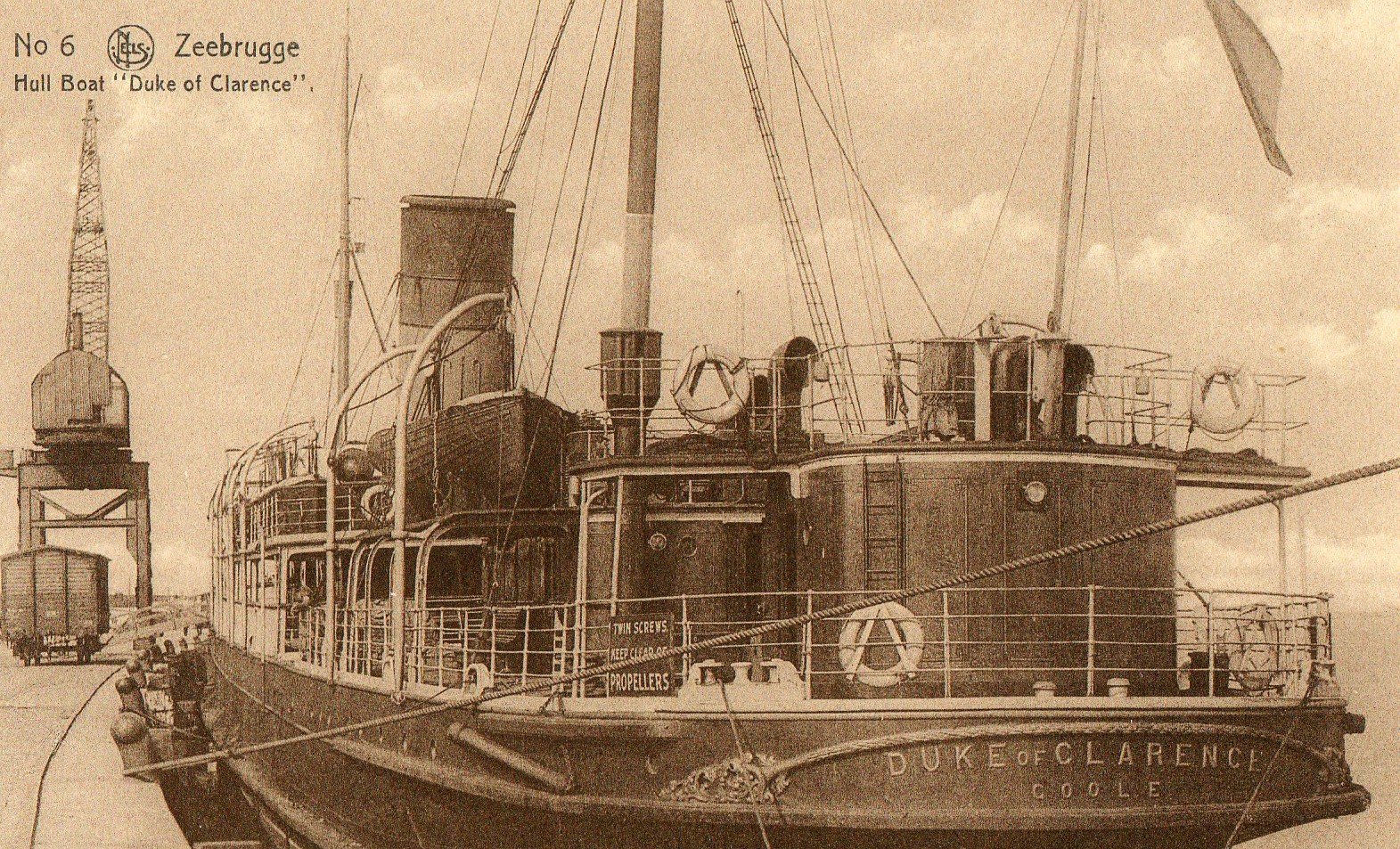 Photograph of the Lancashire & Yorkshire Railway steamship Duke of Clarence. Dated to April 1918 as it was part of a set published on the Zeebrugge Raid.